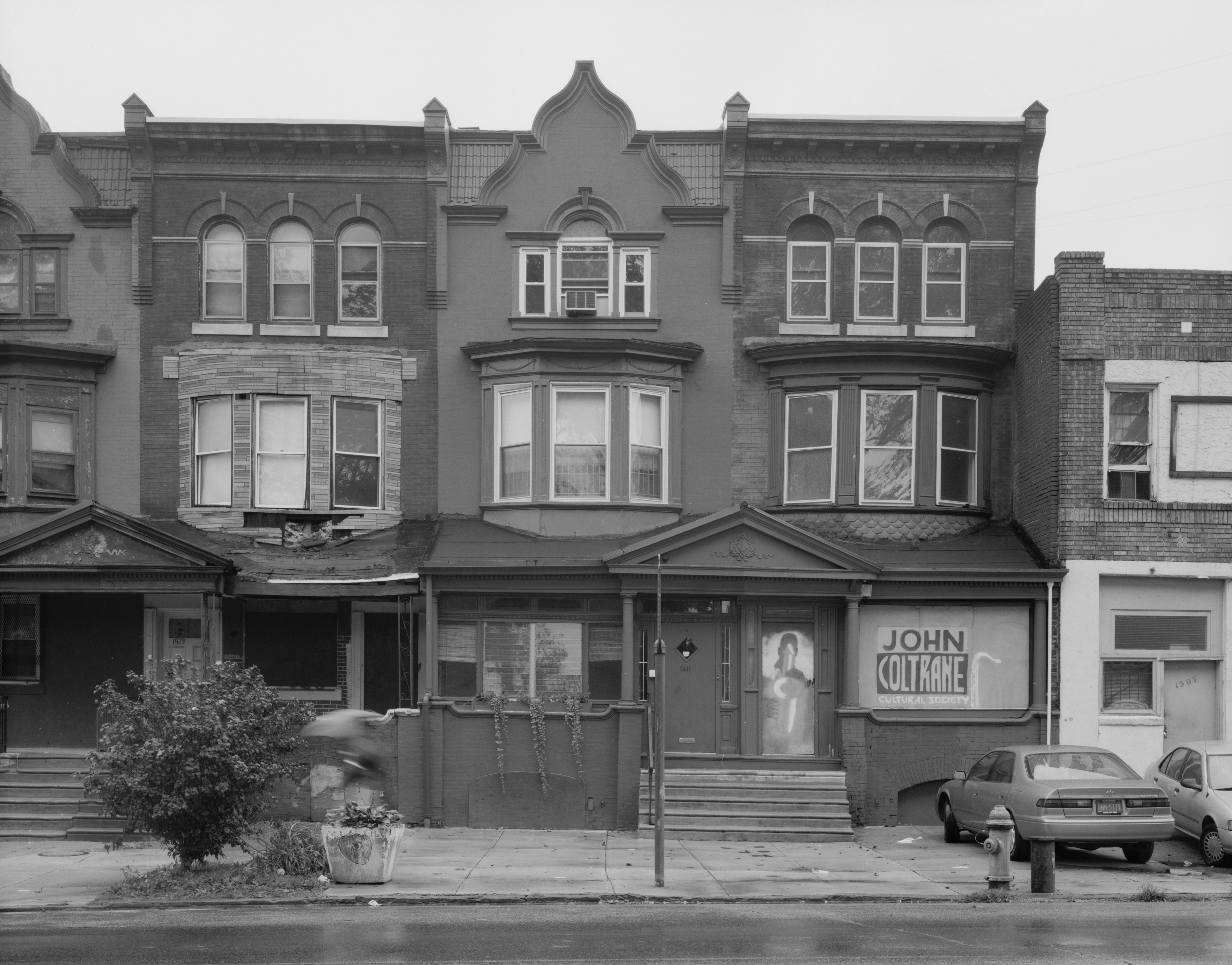 John Coltrane House, 1511 North Thirty-third Street, Philadelphia, Philadelphia County, PA Measured Drawing(s): 1 (24 x 36 in.) Photo(s): 10 (4 x 5 in.) Field note material exists for this structure (N727). Building/structure dates: 1903 initial construction National Register Number: 10000006 Significance: It has cultural significance as the long-time residence of John W. Coltrane, the groundbreaking and innovative African-American jazz musician (1926-1967). Additionally, the building is a superlative extant example of a North Philadelphia row house constructed for Philadelphia's middle class at the turn-of-the-twentieth century